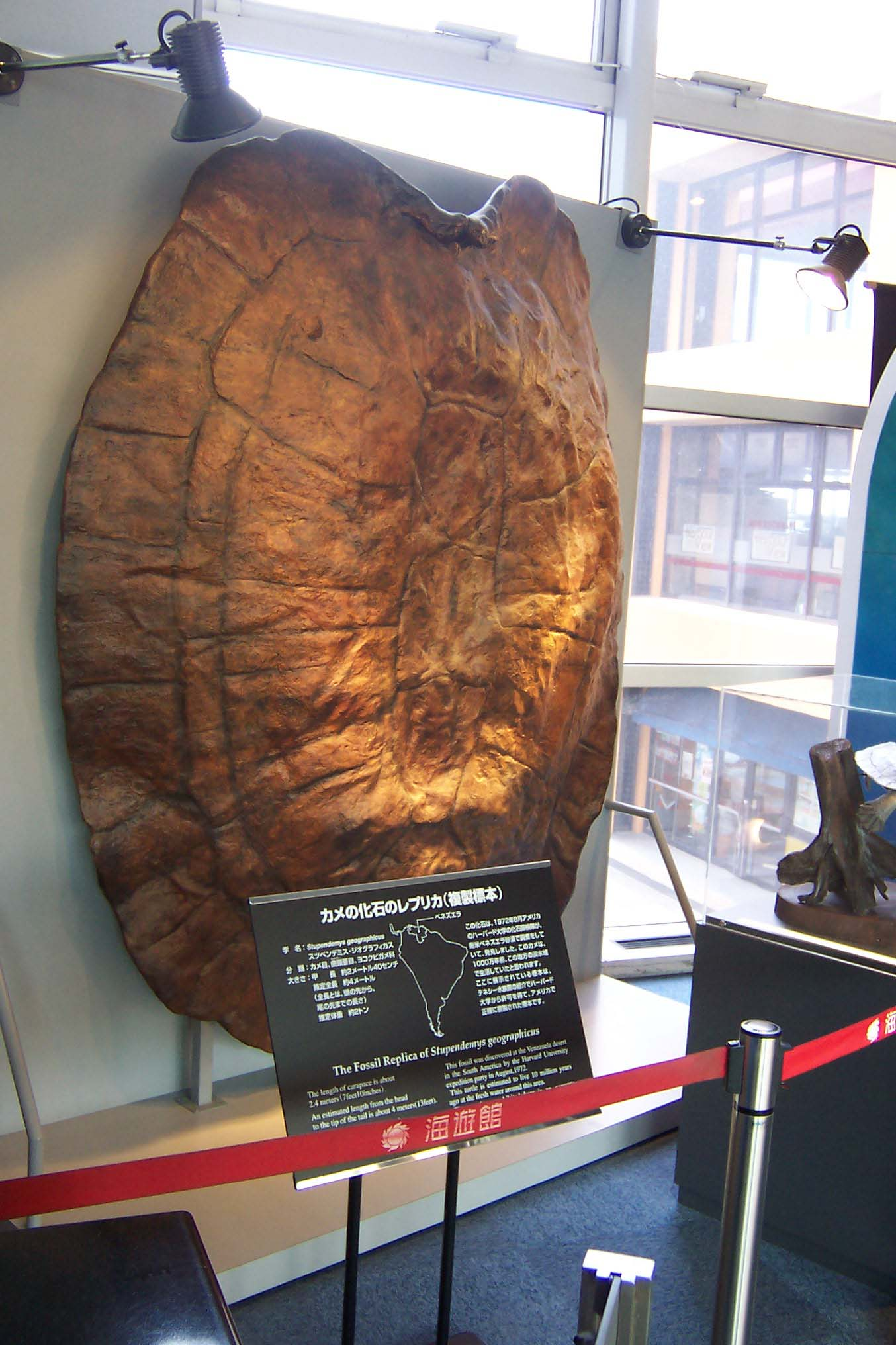 Fossil replica of Stupendemys geographicus at the Kaiyukan Aquarium in Osaka, Japan. I love the Internet.....